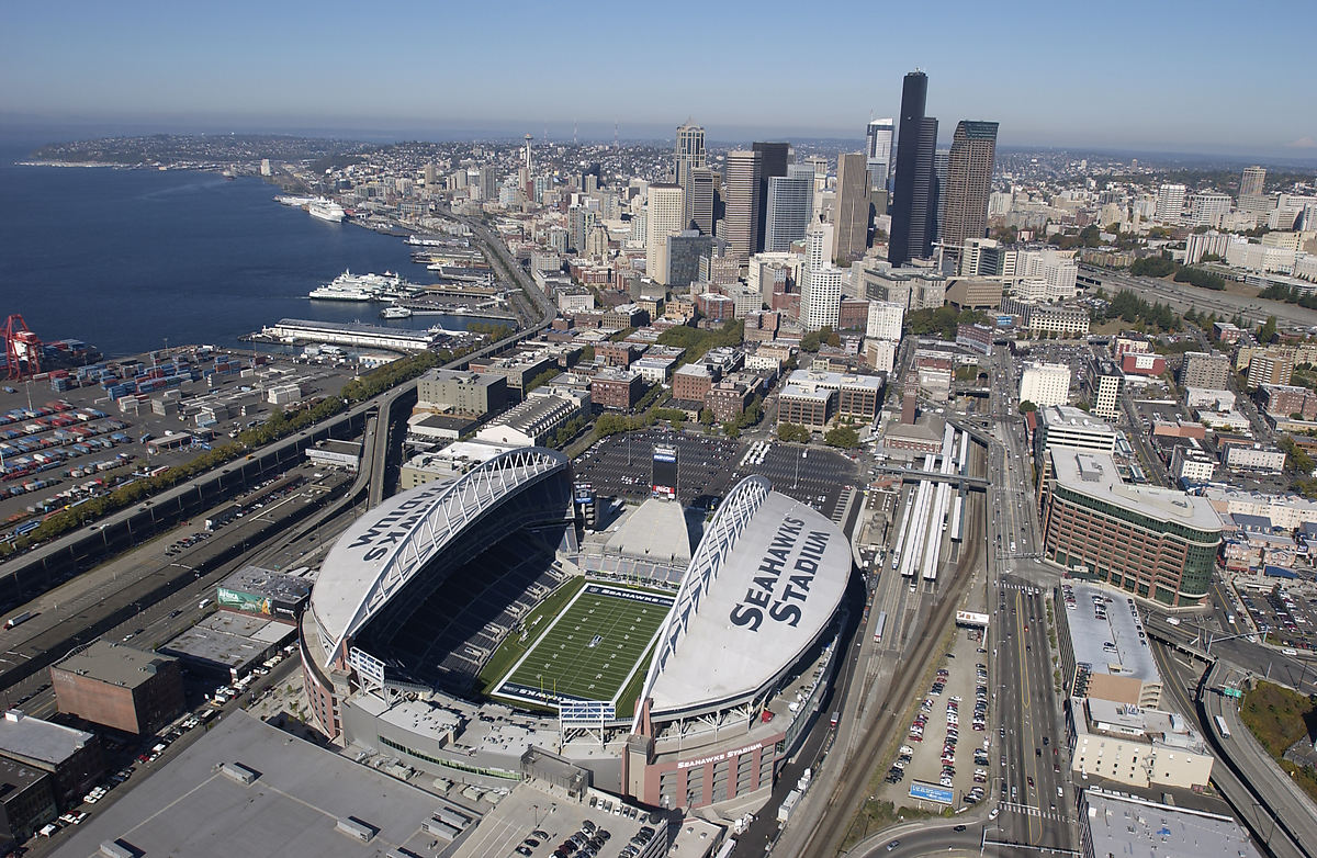 Item 145126, Fleets and Facilities Department Imagebank Collection (Record Series 0207-01), Seattle Municipal Archives.